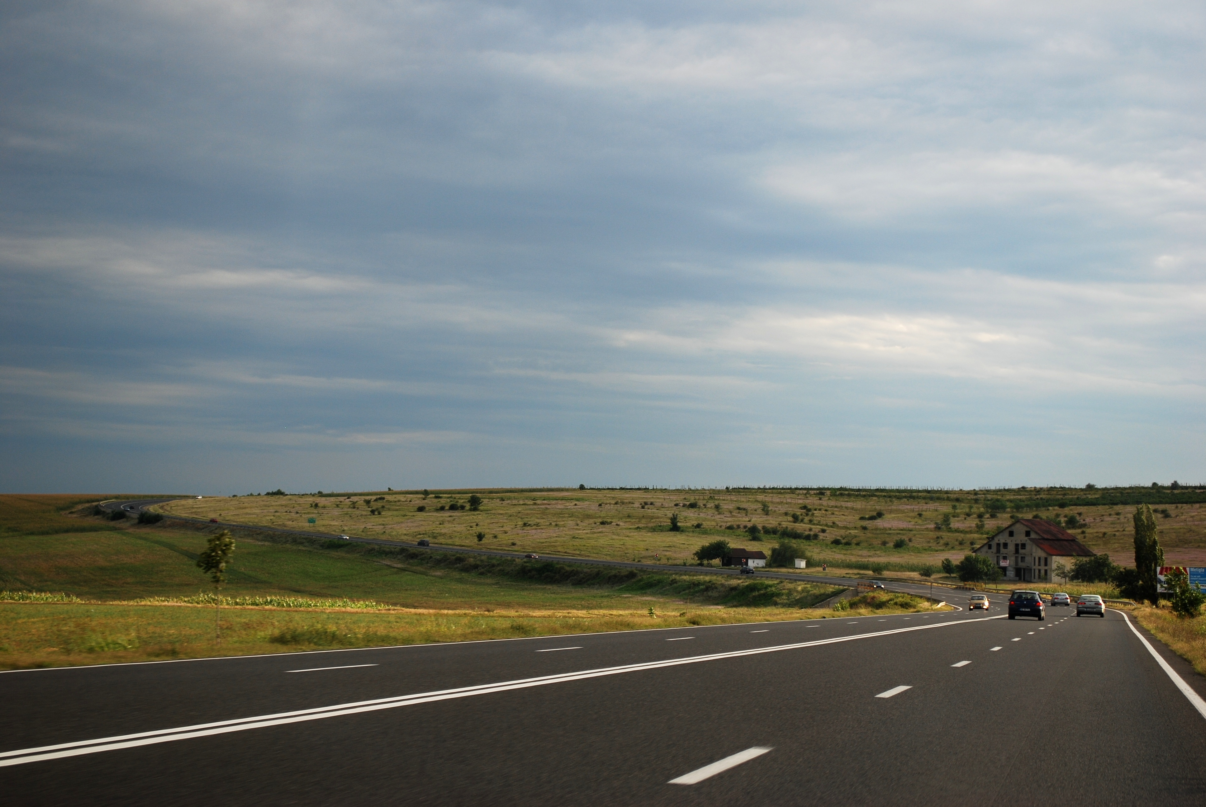 DN2 in comuna Zărnești, Buzău County, Romania, in one of its most dificult spots: "Crucea Comisoaiei" ("Comisoaia Cross"); in winter, under heavy snow, the road usually becomes impossible to cross at this point.